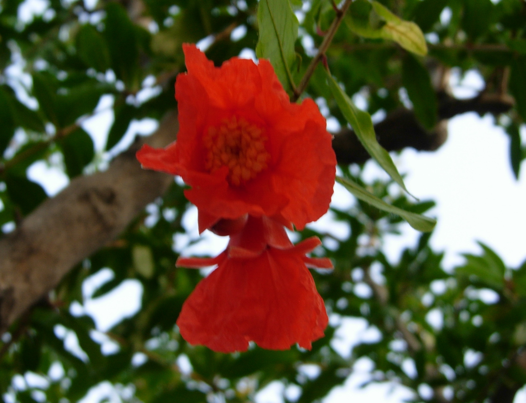 Pomegranate flowers